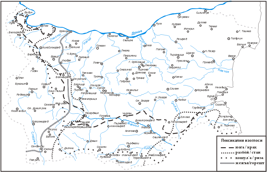 Map showing lexical isoglosses of Bulgarian speech.